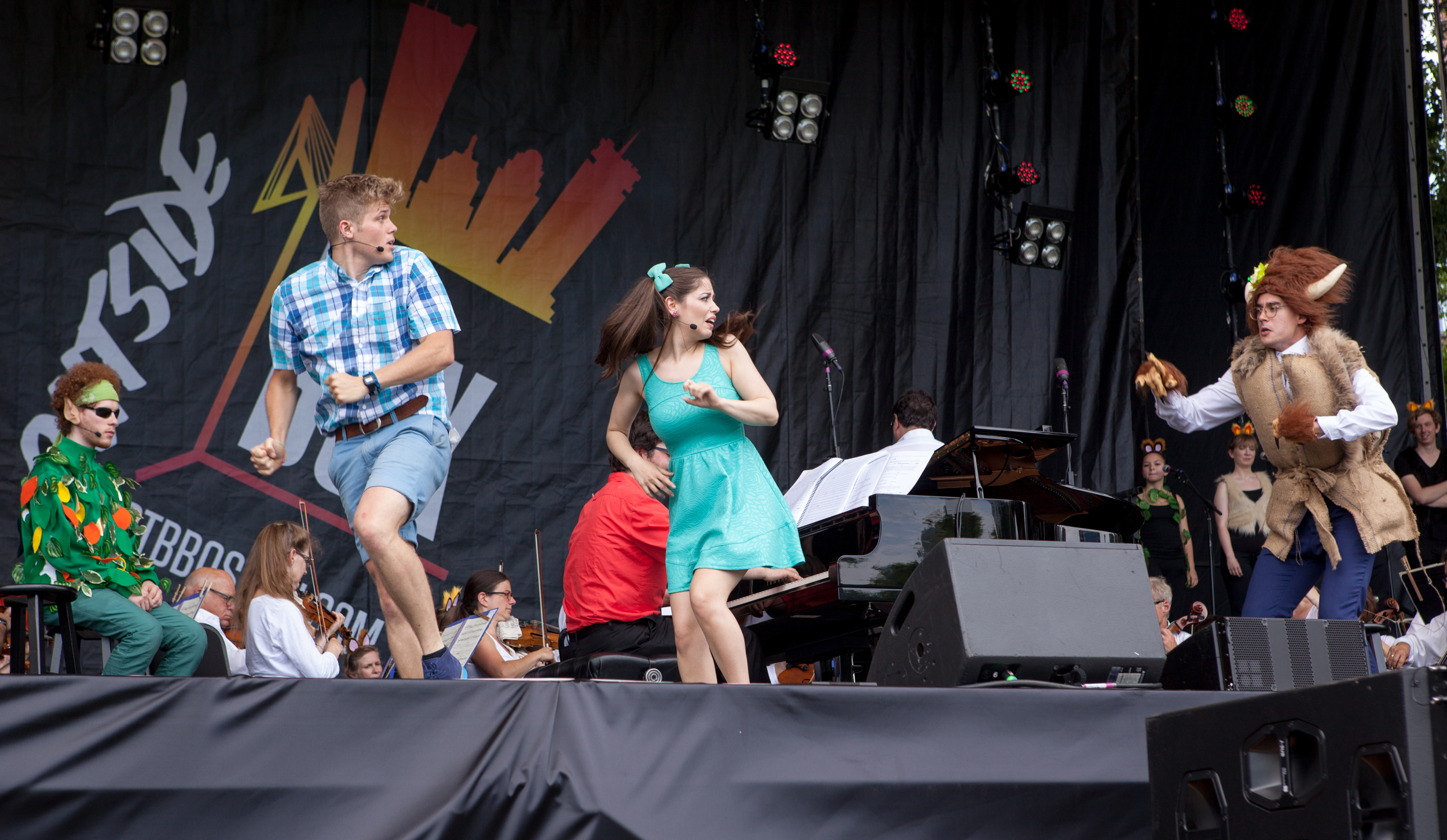 Ami and Tami, featuring Tutti Druyan, Lukas Papenfusscline, David Hughes and Matthew Shifrin